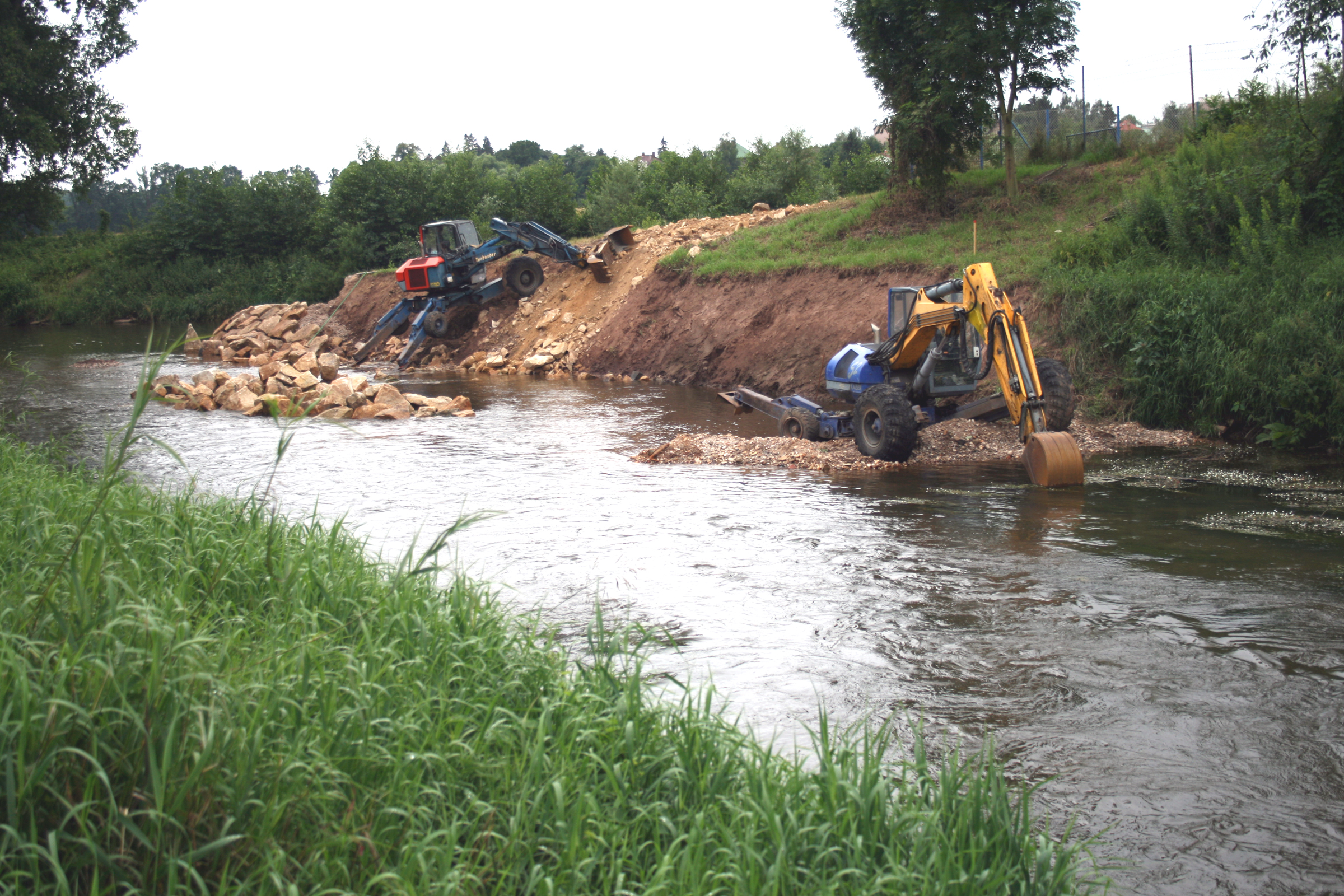 Building works on Úpa river by confuence with Elbe river near Jaroměř east Bohemia